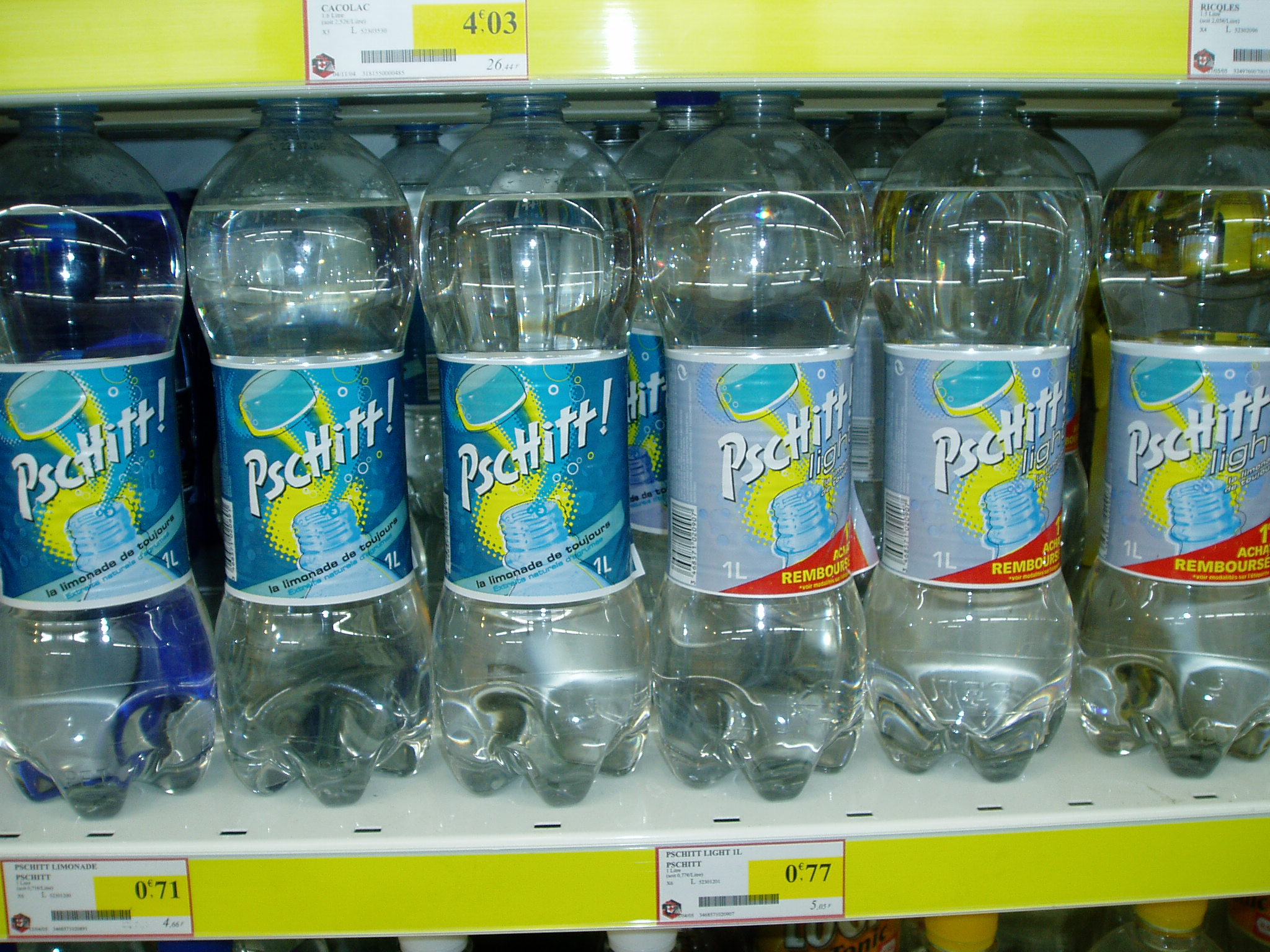 Hmmmm, I fancy a nice glass of Pschitt!